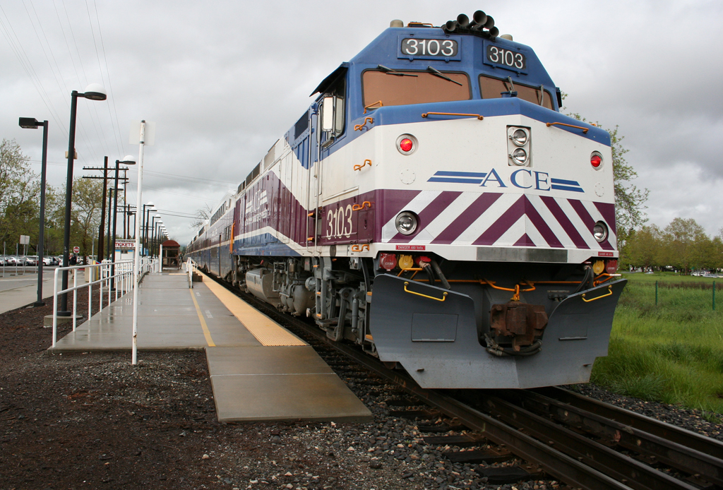 The Altamont Commuter Express train leaving Pleasanton station on the afternoon of March 22, 2005. Image created by Jay Slupesky using a Canon EOS 350D.